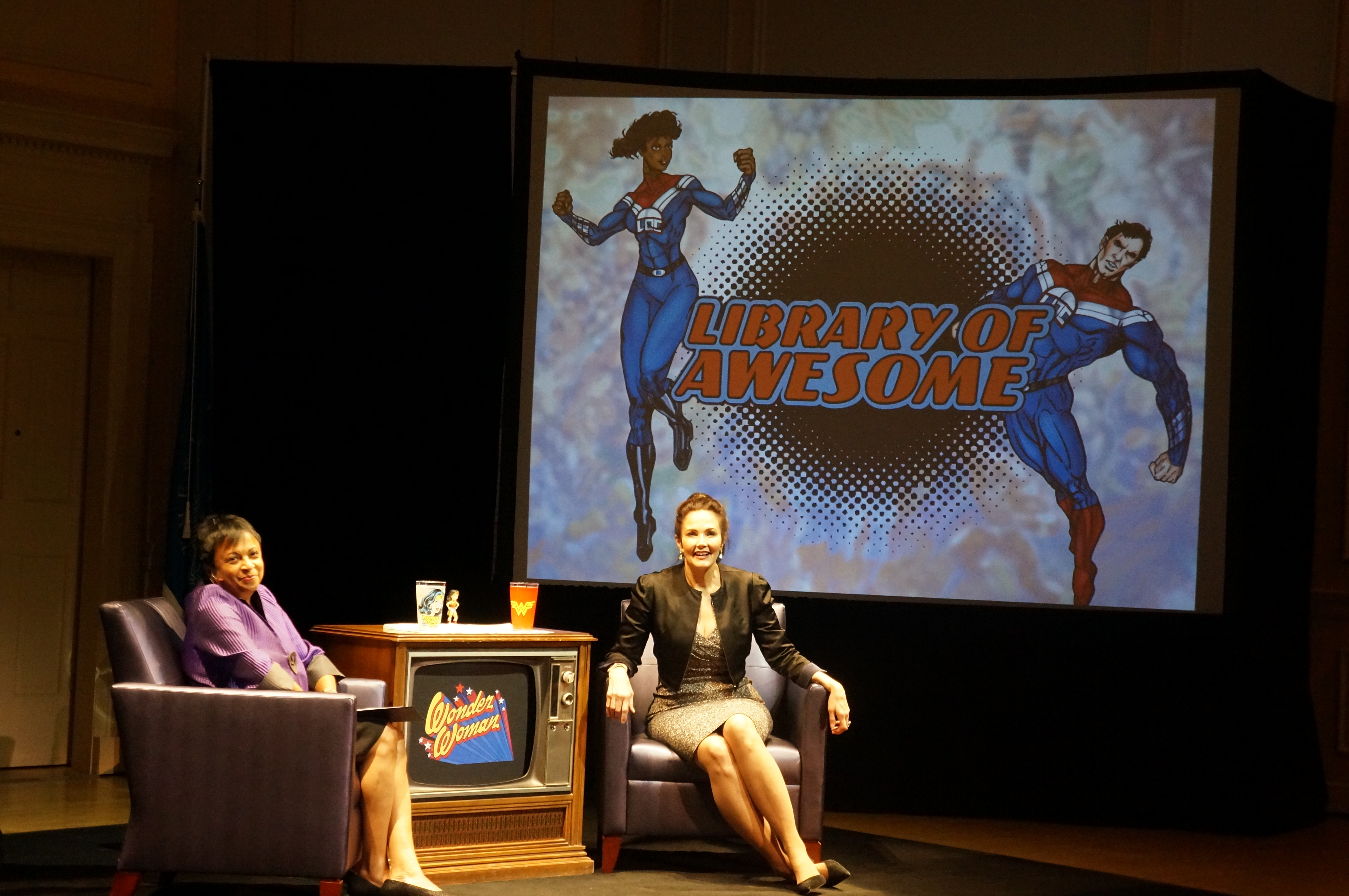 Dr. Carla Hayden and Ms. Lynda Carter at the Library of Awesome event.